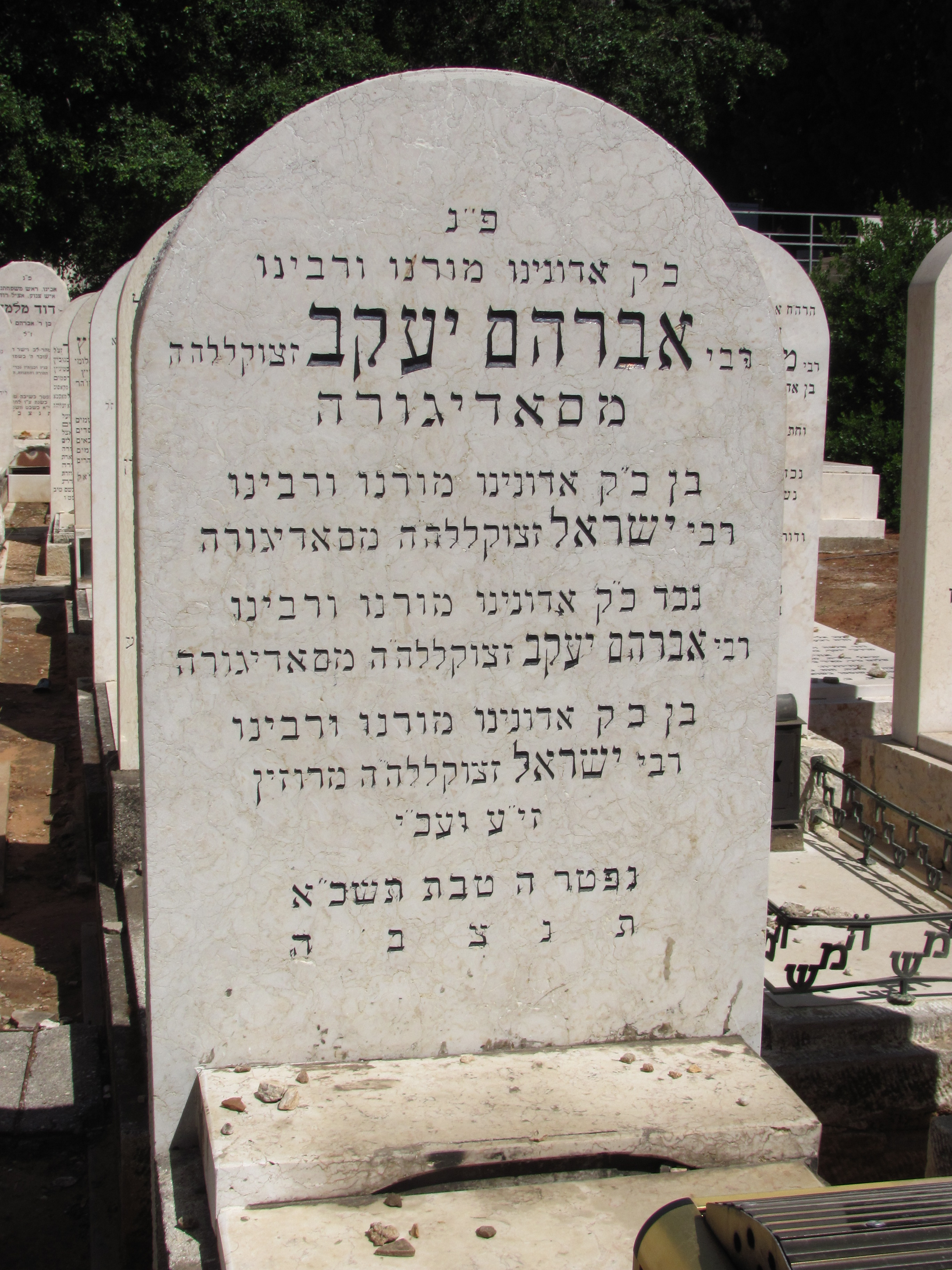 Gravestone of Rabbi Avrohom Yaakov Friedman (II) (1884-1961), third Sadigura Rebbe, in the Nahalat Yitzhak Cemetery, Givatayim, Israel